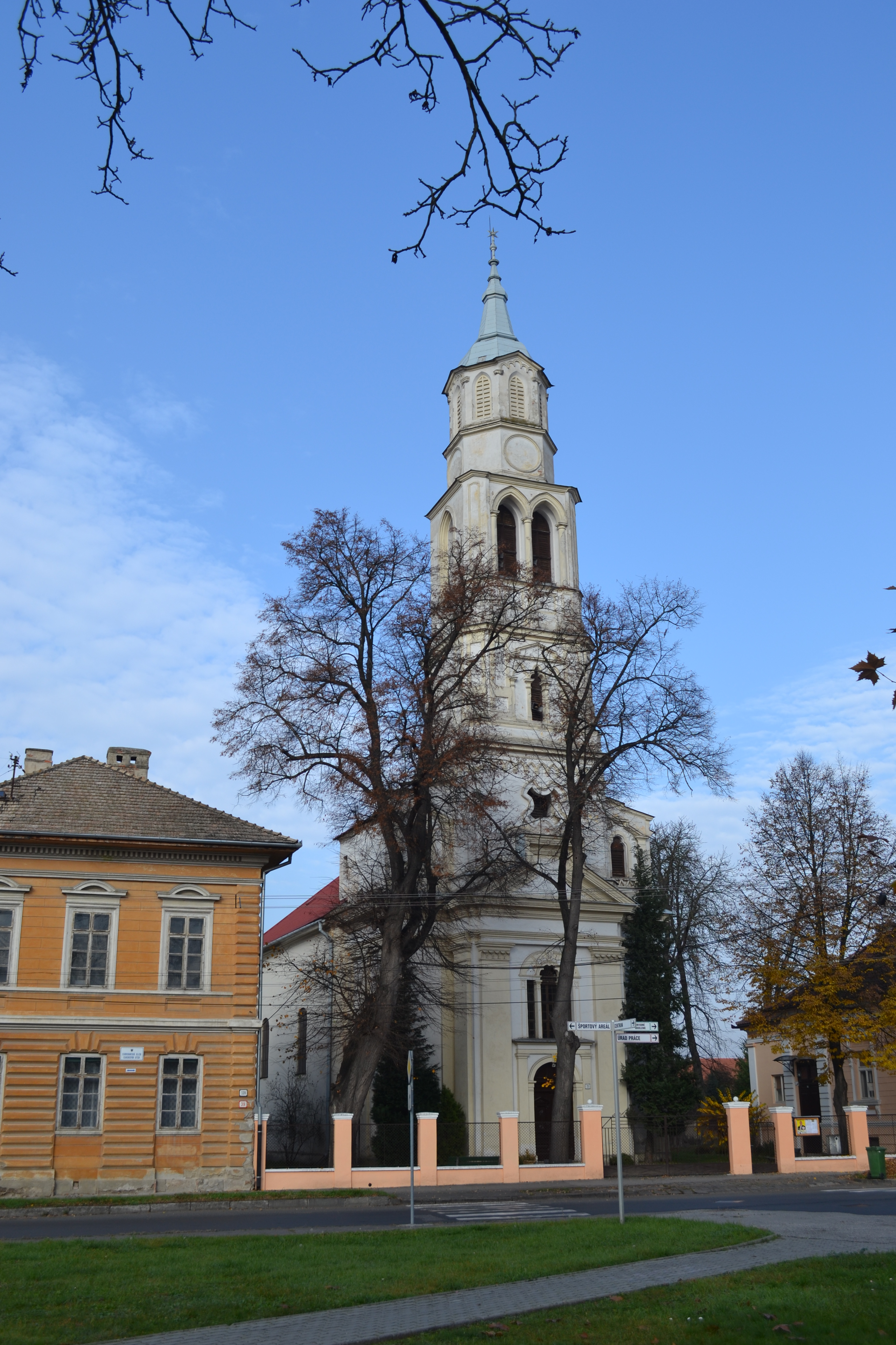 Evangelical Church in Rimavská Sobota